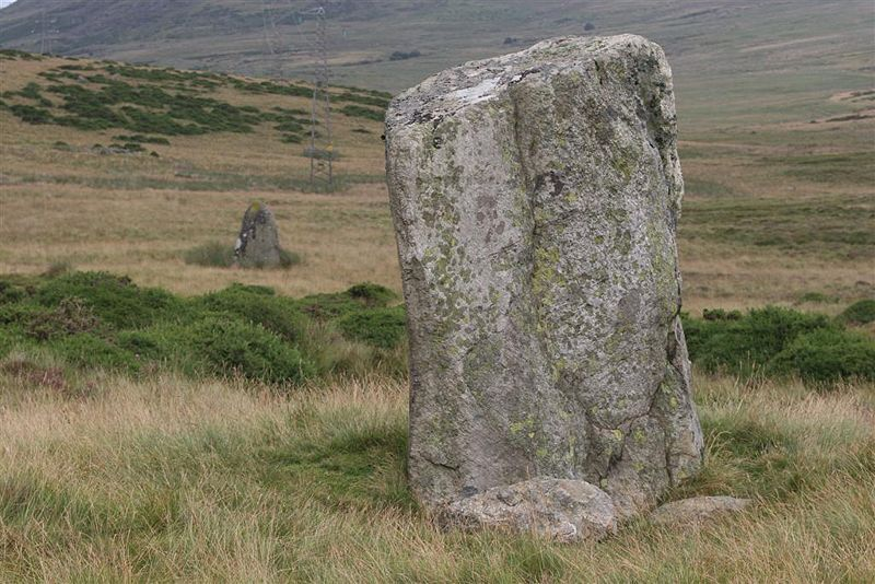 Standing stone, Bwlch y Ddeufaen, Conwy BC